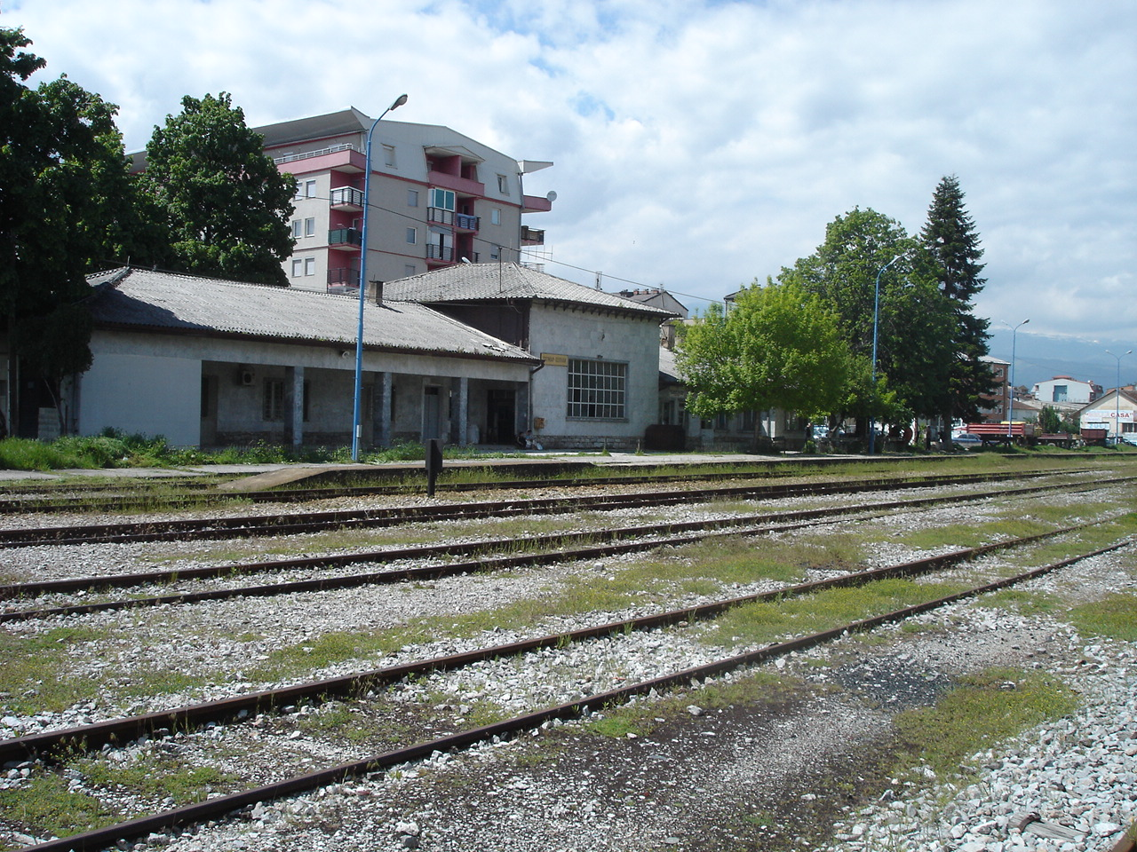 Railway station in Gostivar, Macedonia